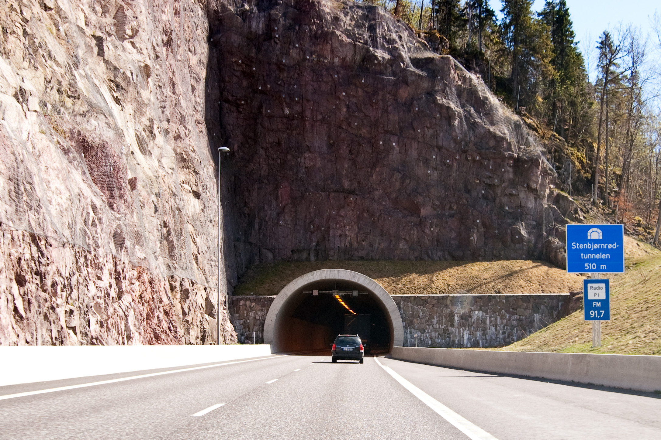 Steinbjørnrød tunnel seen from the north. Re, Vestfold, Norway